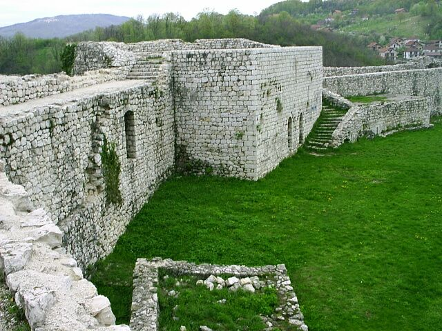 Tešanj castle, BiH